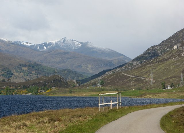 Loch Beannacharan One of two lochs in the central stretch of Glen Strathfarrar. Sgurr na Lapaich and a snow shower in the background.